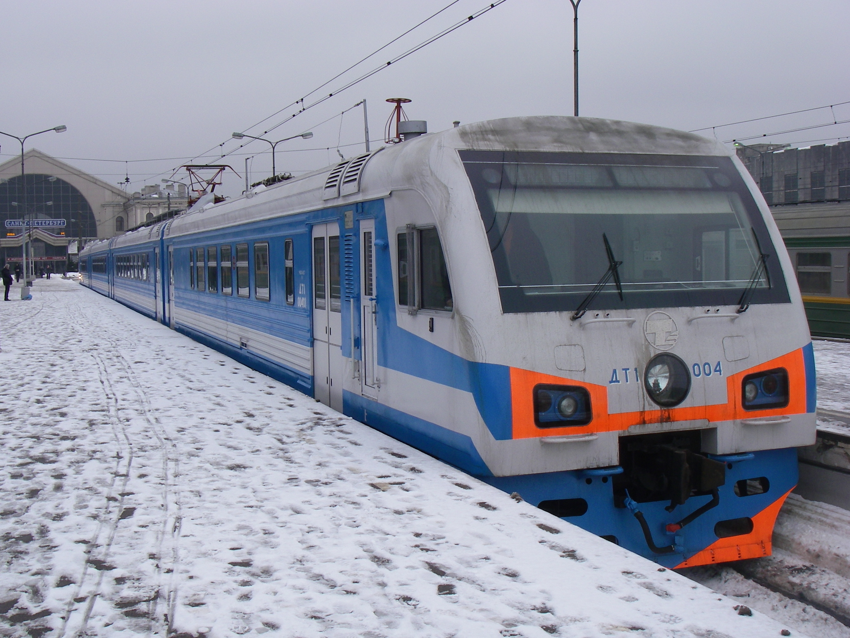 DT1 diesel-electric train at Baltiyskiy rail terminal, Saint Petersburg